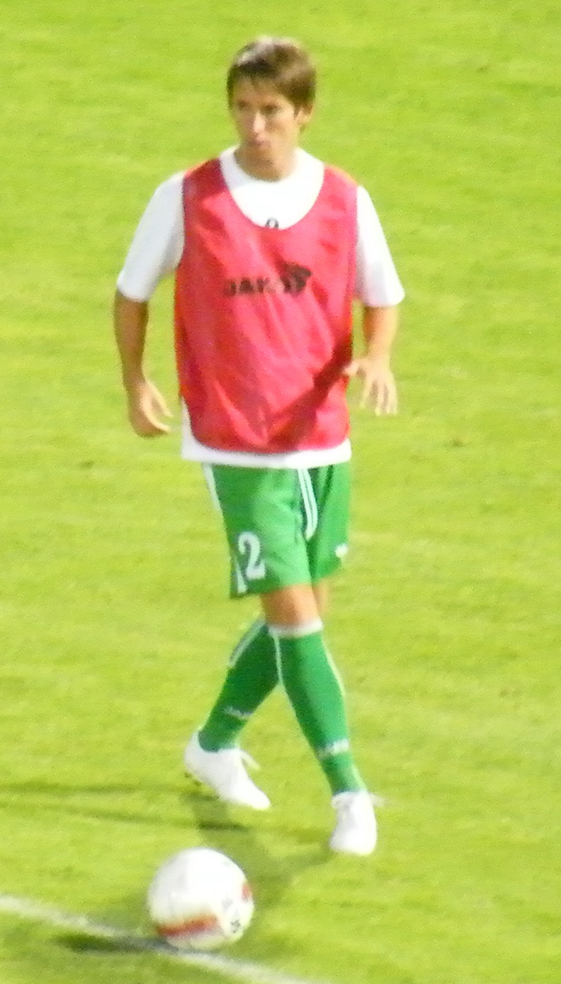 István Nagy Hungarian association football player (born 1986).